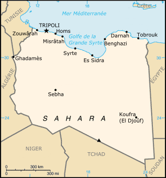 Map of Libya.